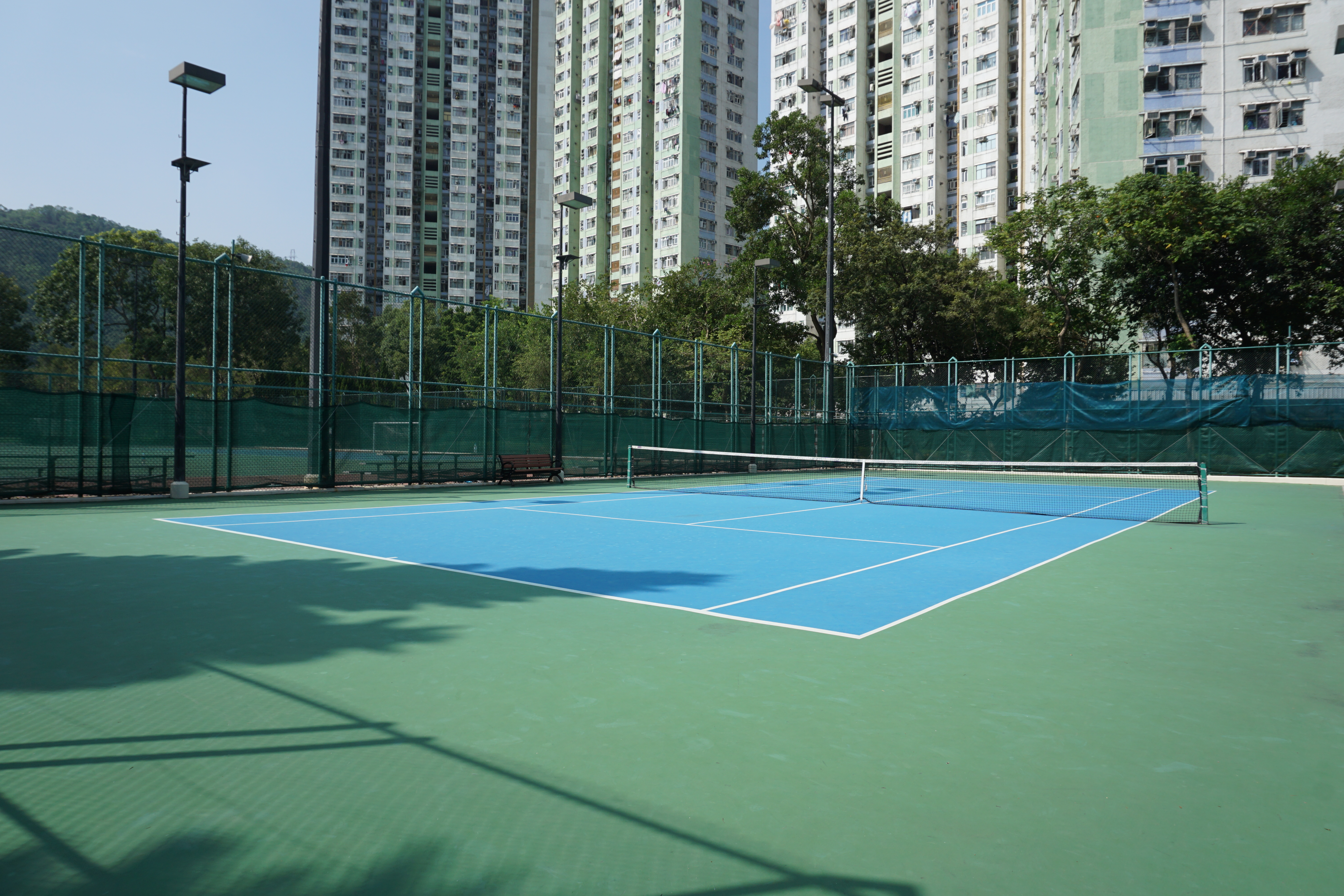 Po Tsui Park in Po Lam, Hong Kong.